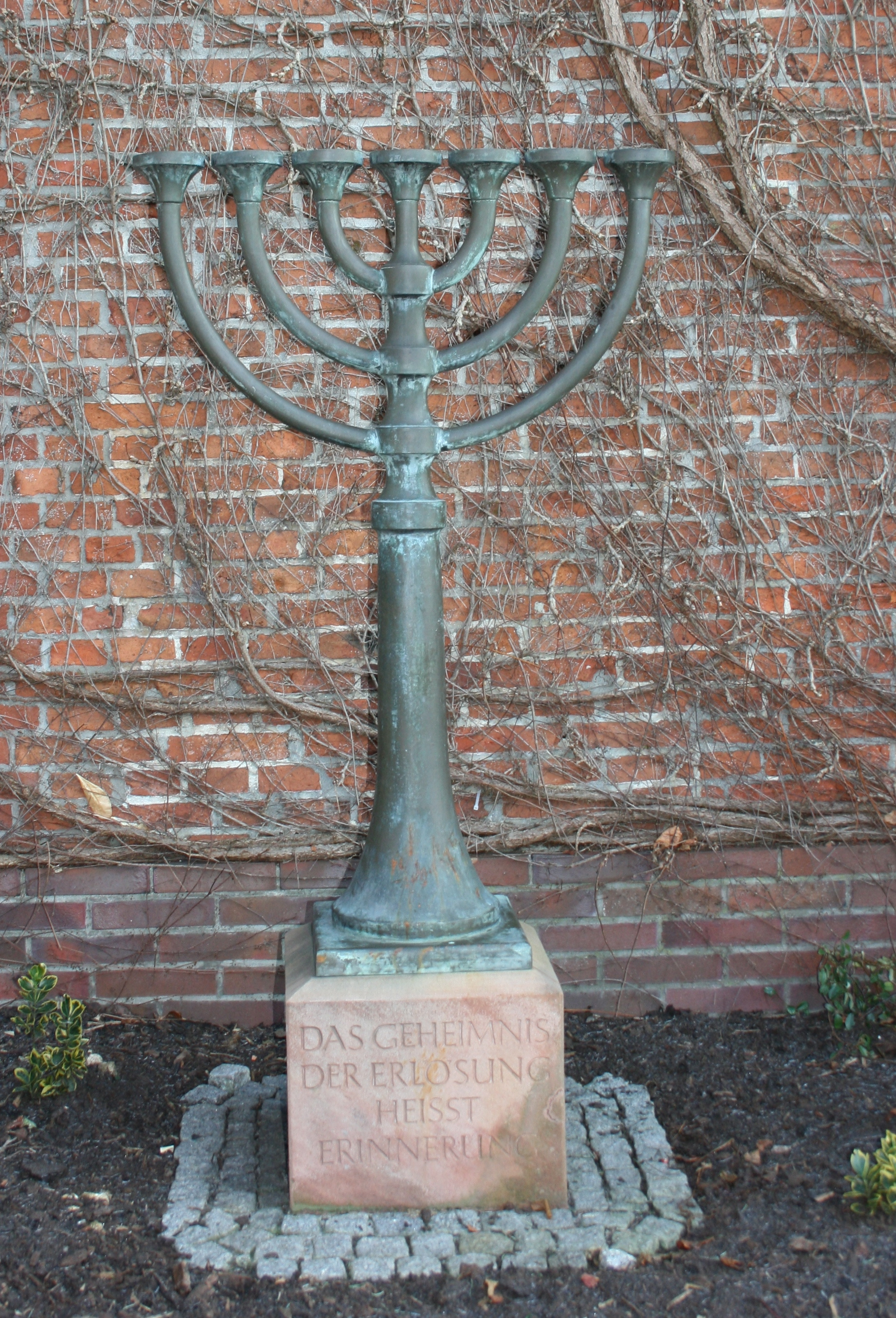 jewish memorial in Emden